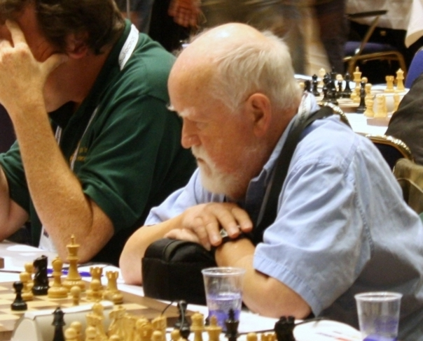 Chess master Bill Hook, British Virgin Islands. Dresden 2008.